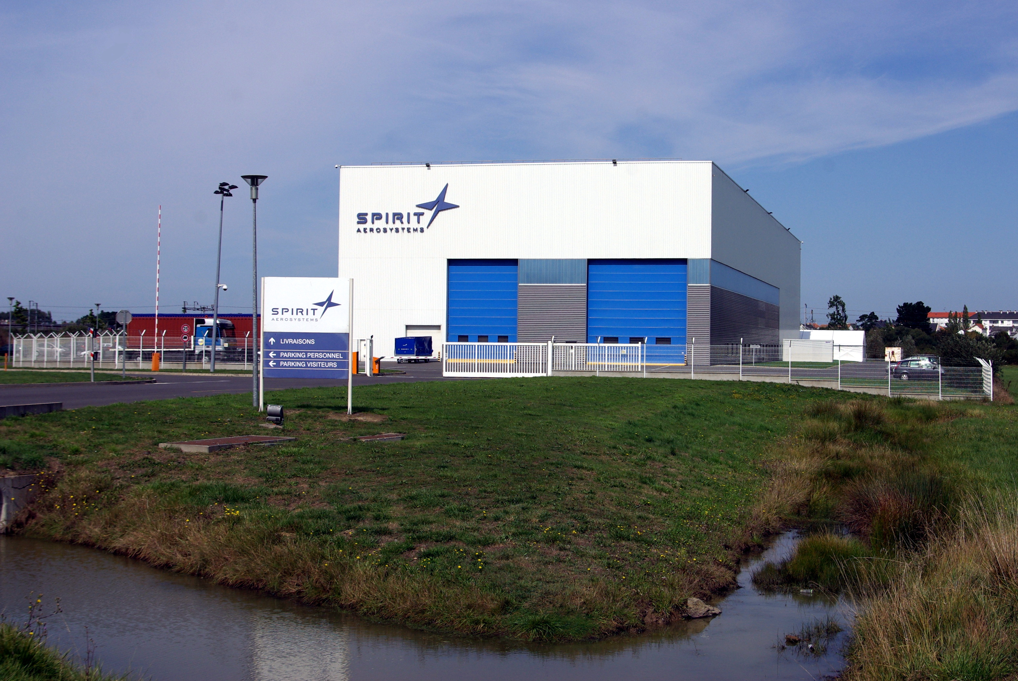 Spirit AeroSystems, site of Montoir-de-Bretagne/Saint-Nazaire.